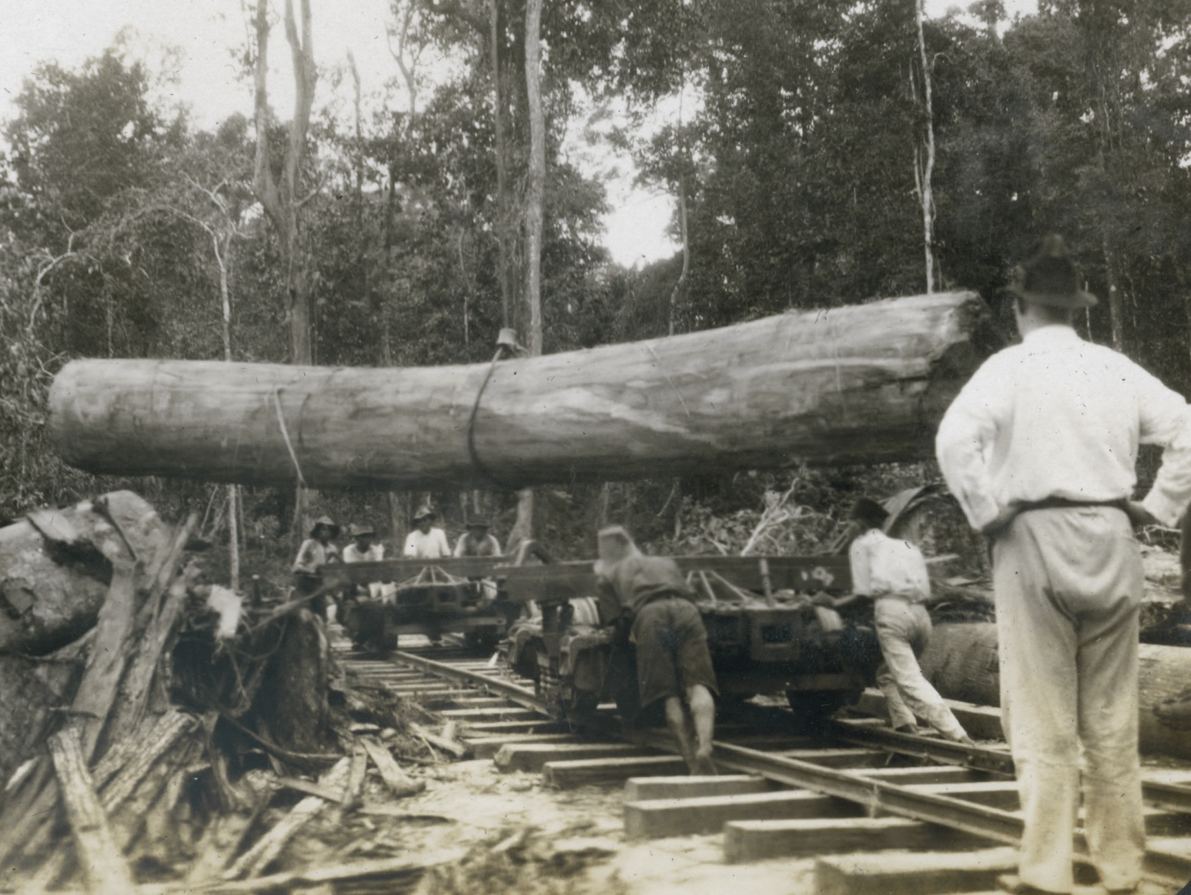 A huge log being placed on a railroad car at Batottan, British North Borneo.